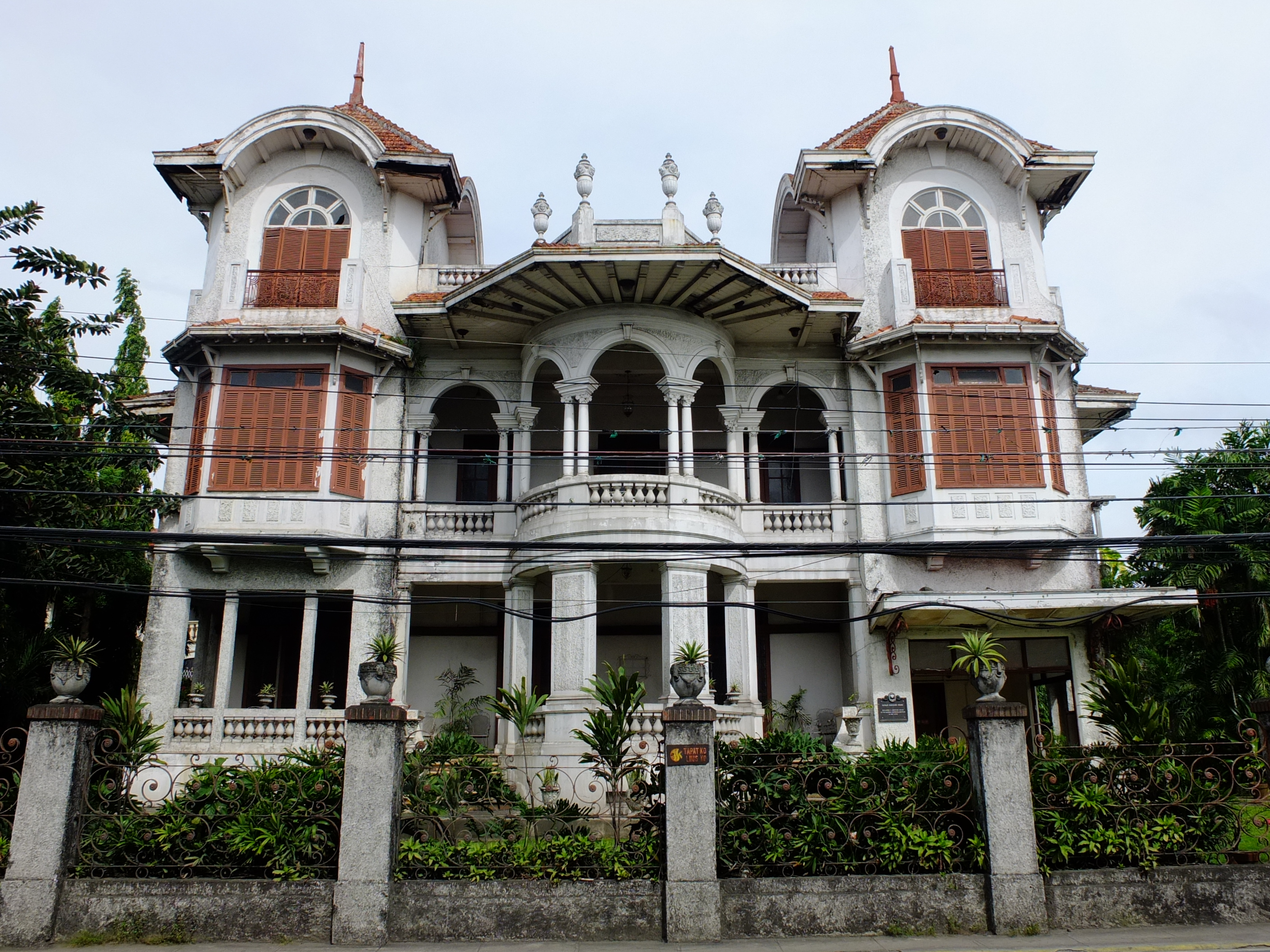 1932 Art Deco by Andres Luna de San Pedro